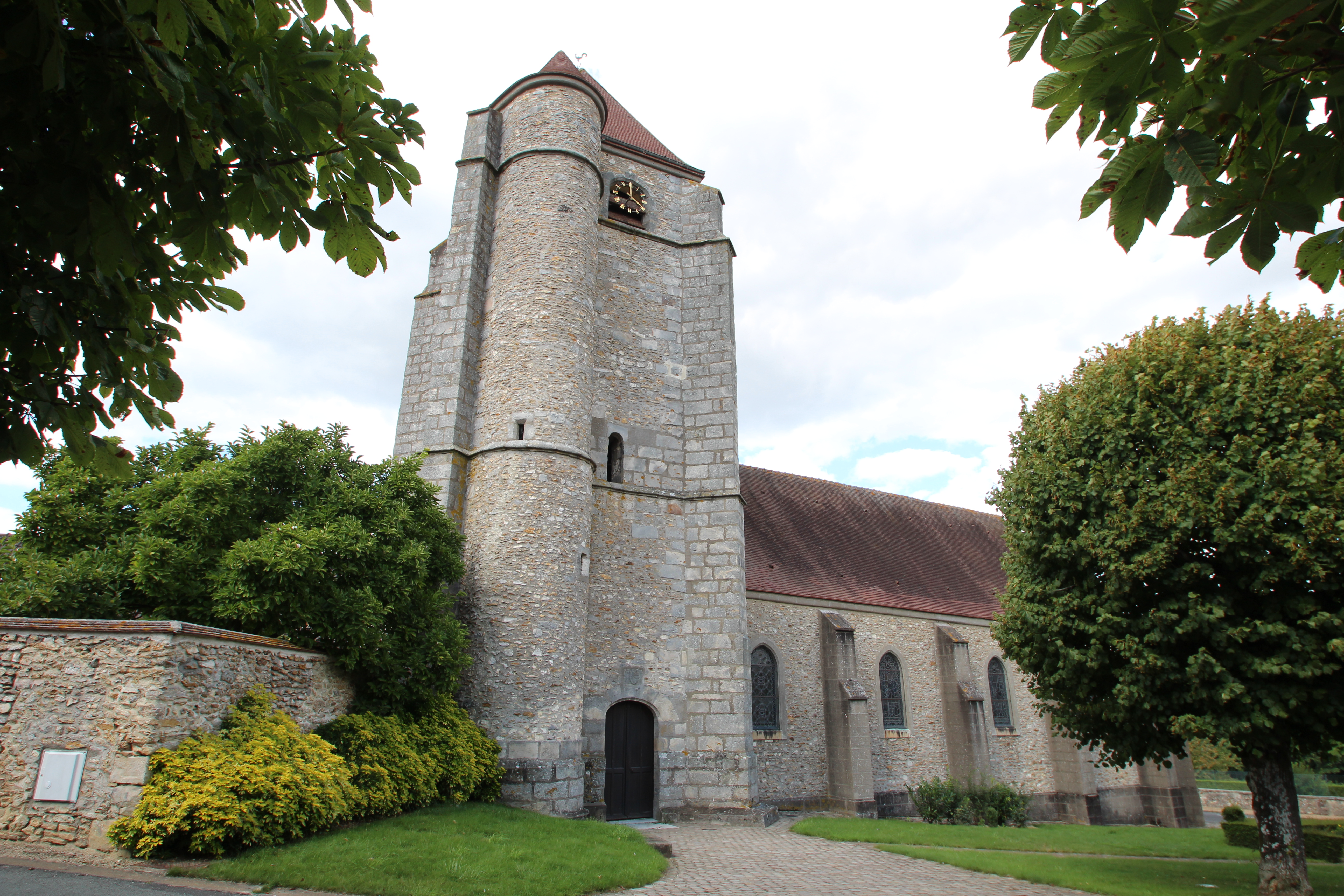 Sainte-Monégonde church in Orphin, France. Object location48° 34′ 48.18″ N, 1° 46′ 55.24″ E .